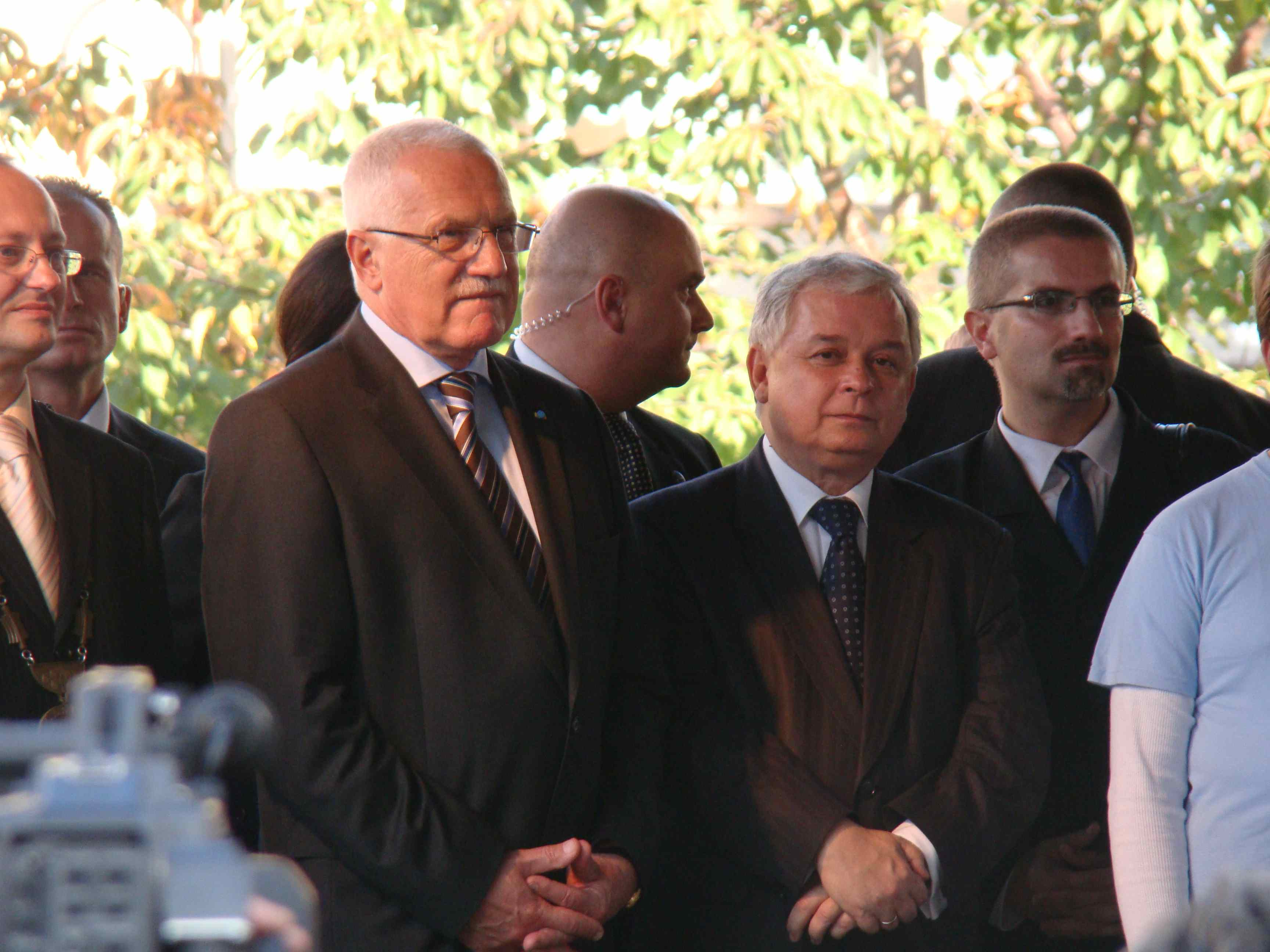 Lech Kaczyński and Vaclav Klaus. 2008. Cieszyn.